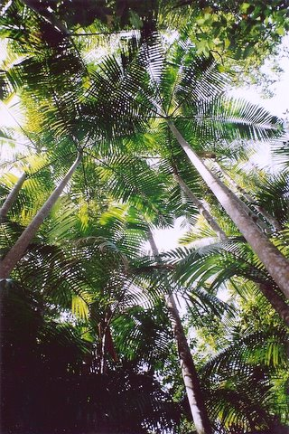 Archontophoenix cunninghamiana forest, Middle Brother National Park. (Bangalow Palm)